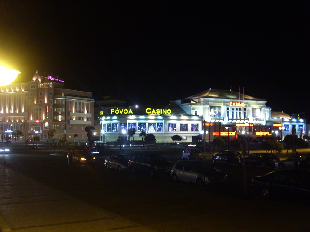 Póvoa Casino and hotel from the 1930s.